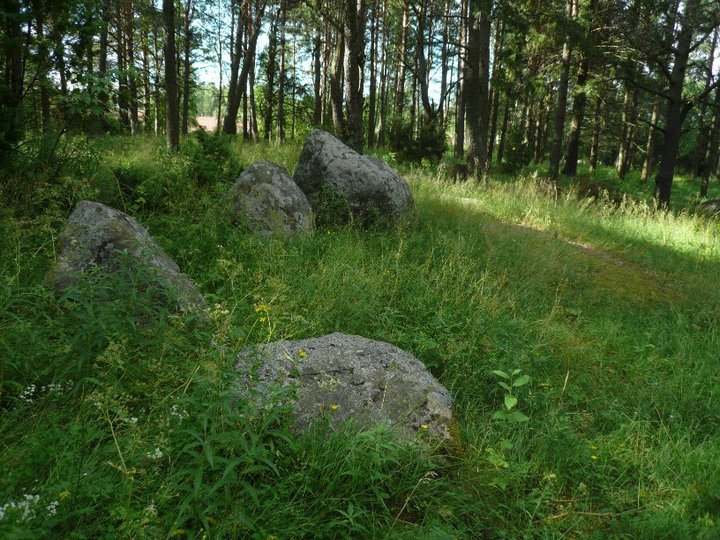 Virnamäki Irong Age site in Turku, Finland. The complex contains several burial grounds and sacrificial stones.